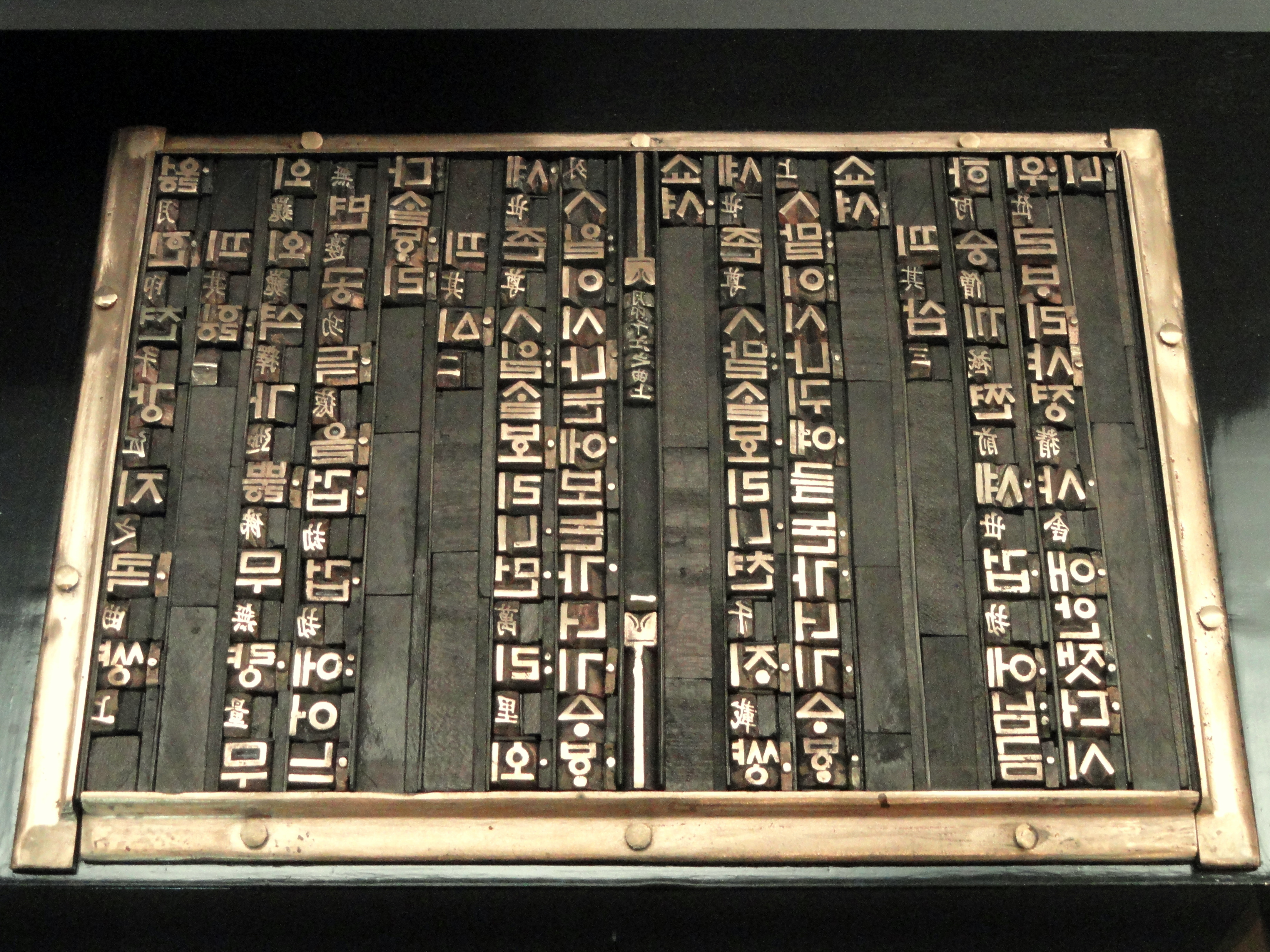 Replica of historic item in the Korean Culture Museum in Incheon Airport, South Korea, "Worin cheongangjigok" (月印千江之曲 / 월인천강지곡, "Moon reflection on thousand rivers song"), bouddha biography. The original model is in printing museum at Tokyo, Japan.